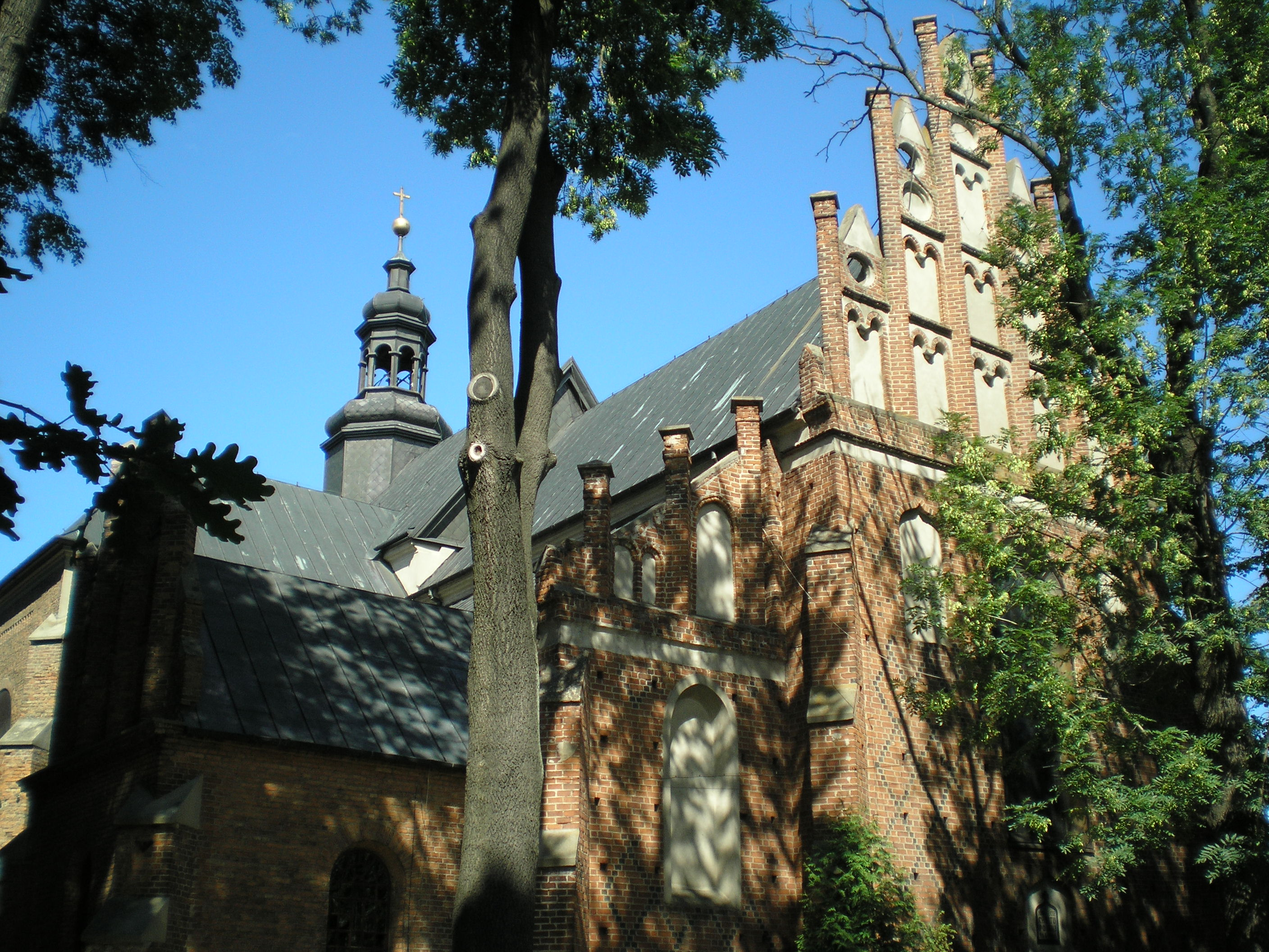 Church of the Nativity of the Virgin Mary in Ciechanów, Poland